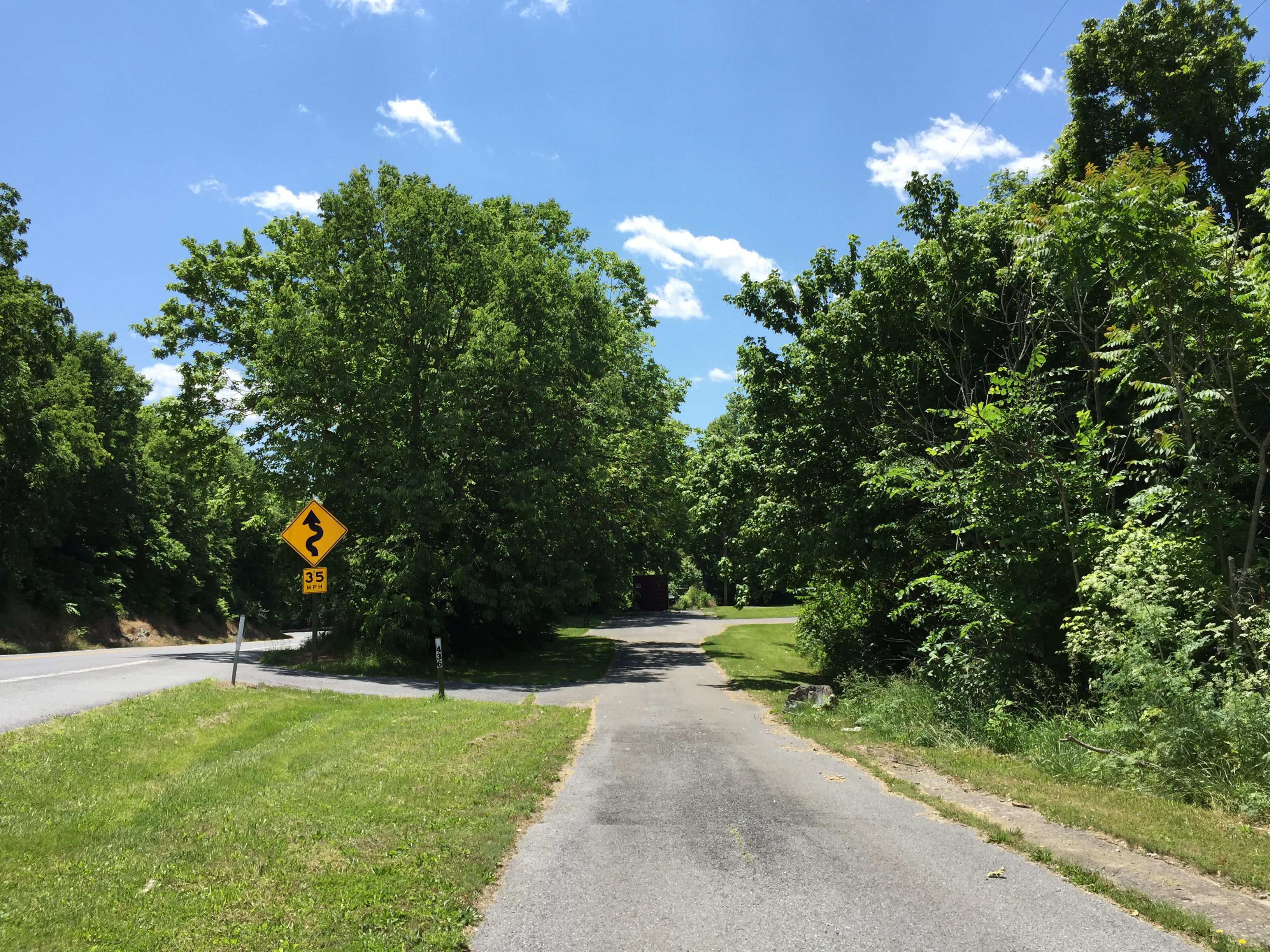 View south at the north end of Maryland State Route 741 (Old National Pike) at U.S. Route 40 Alternate (Old National Pike) in Washington County, Maryland